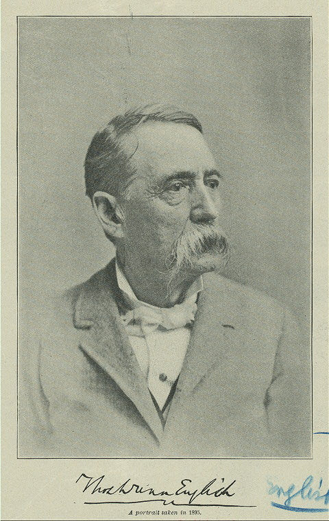 Engraving of American politician and writer Thomas Dunn English, from a portrait done in 1895.